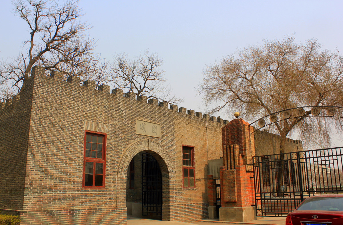 Tuan cheng and the school gate of National Peiyang University.